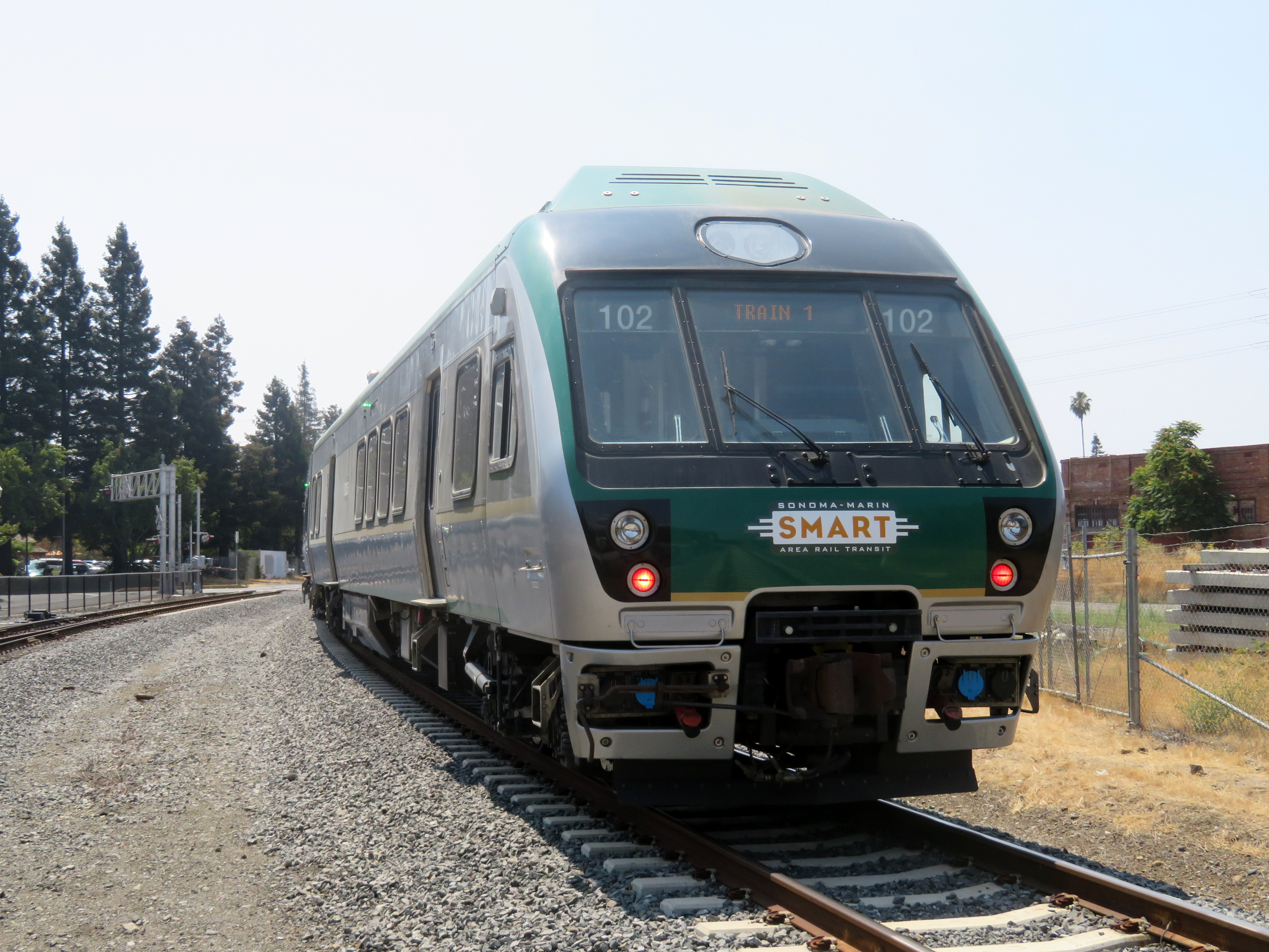 A southbound train leaving Santa Rosa Downtown station in August 2018